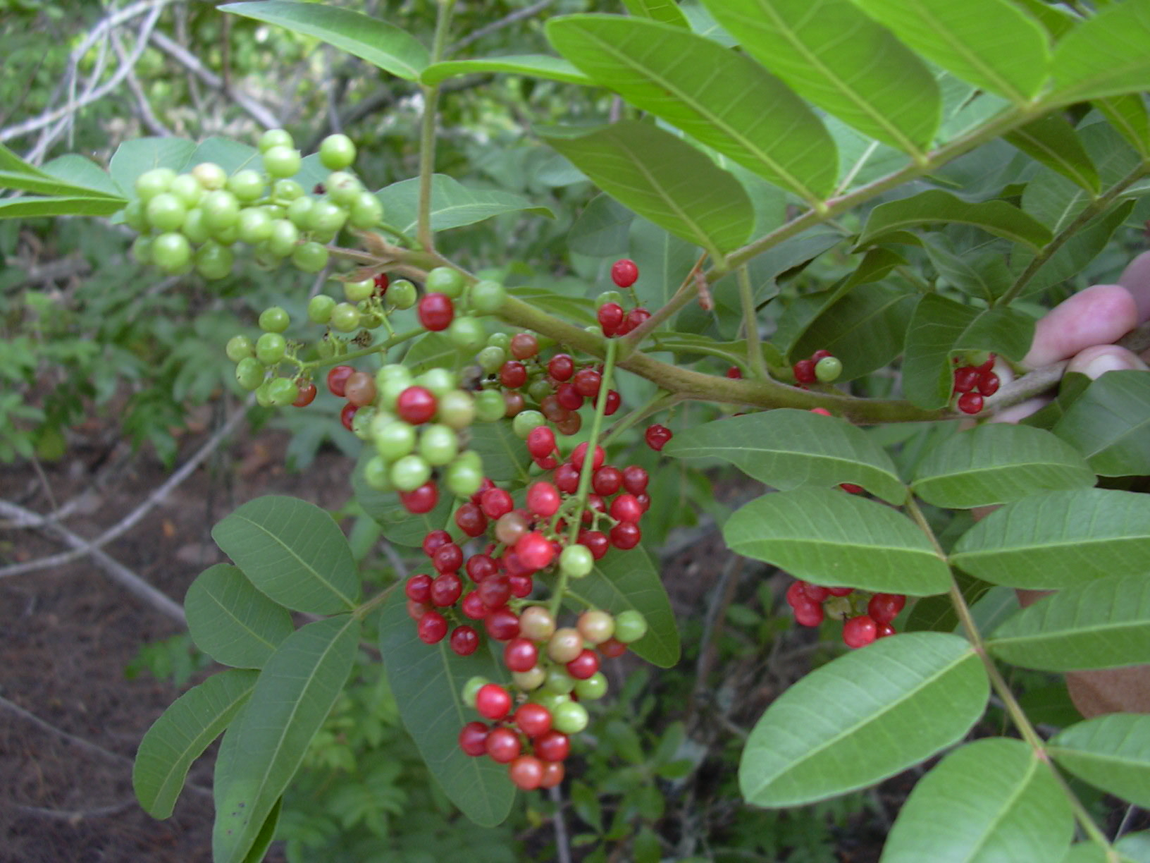 Schinus terebinthifolius (fruit). Location: Florida, South Lido Beach